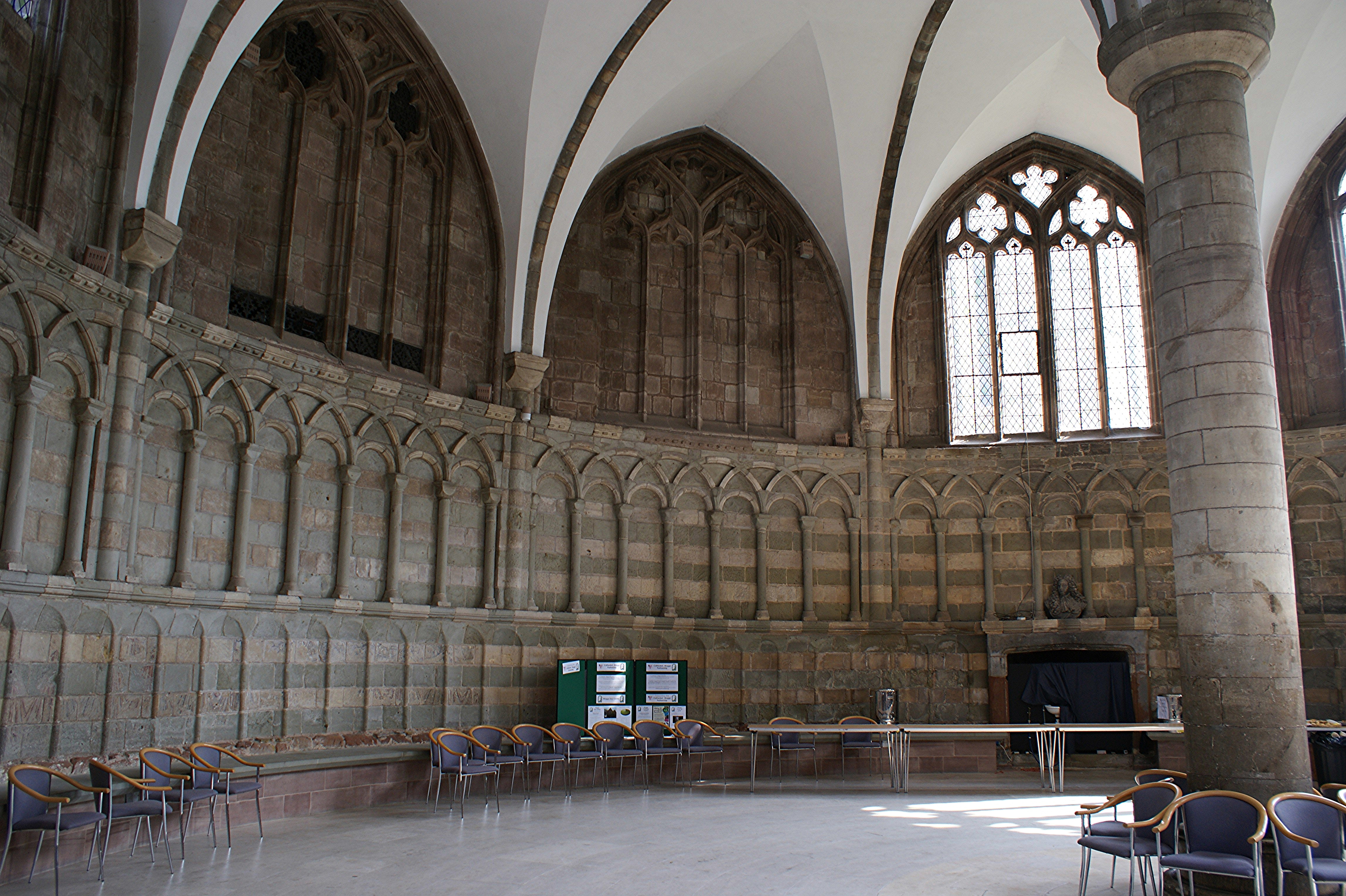 Norman Chapter House (1113) of Worcester Cathedral, with intersecting round-arched arcade on plain columns above shallow niches with blank arches. Above are late 14th Century early Perpendicular windows. Photograph taken 23 June 2013.